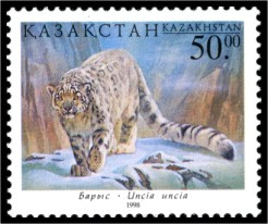 Stamp of Kazakhstan